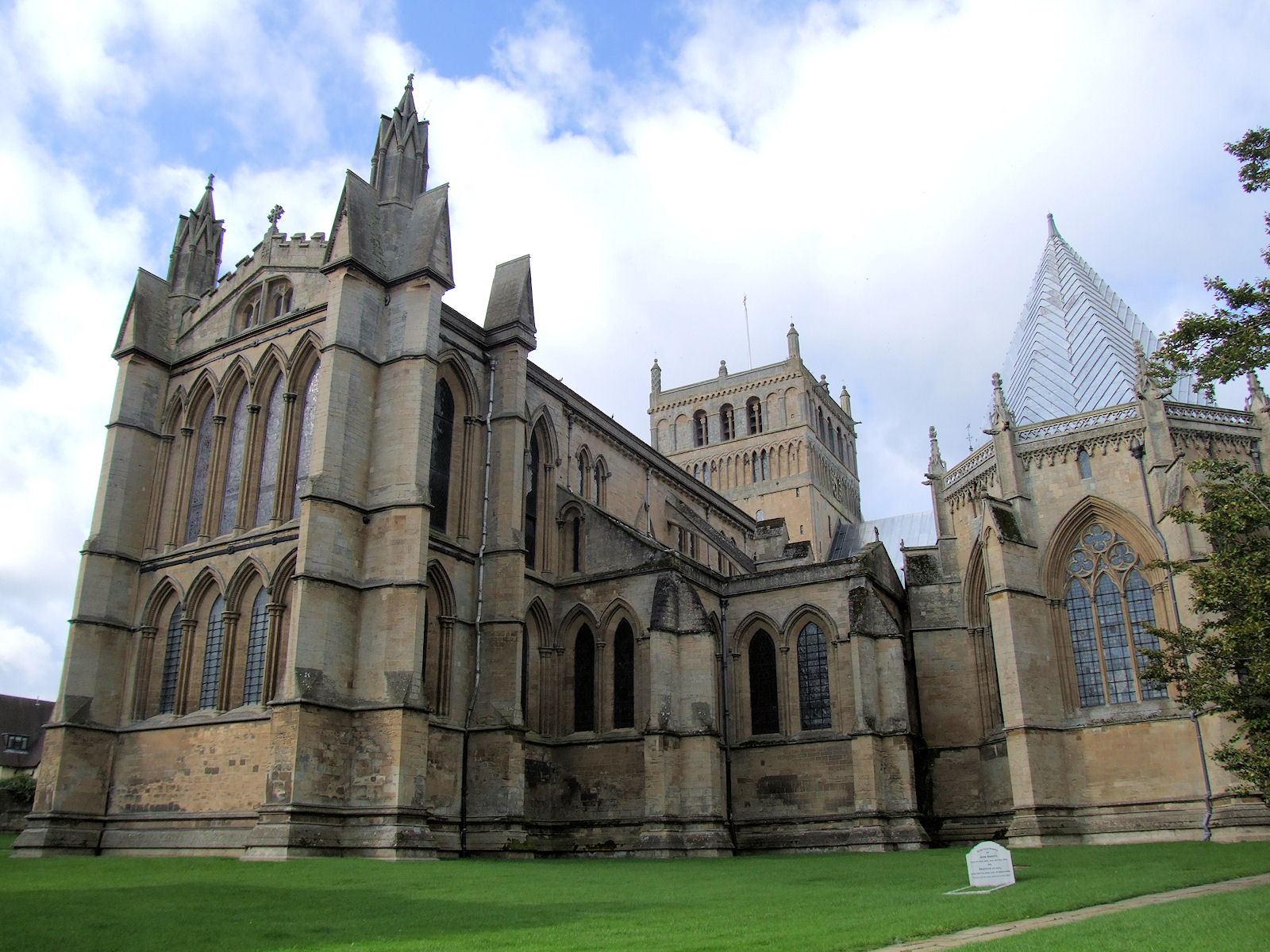 Southwell Minster, England